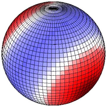 Tidal forcing, western northern hemisphere, on lower right.Moon directly over 30 N, 90 W or 30 S, 90 E.